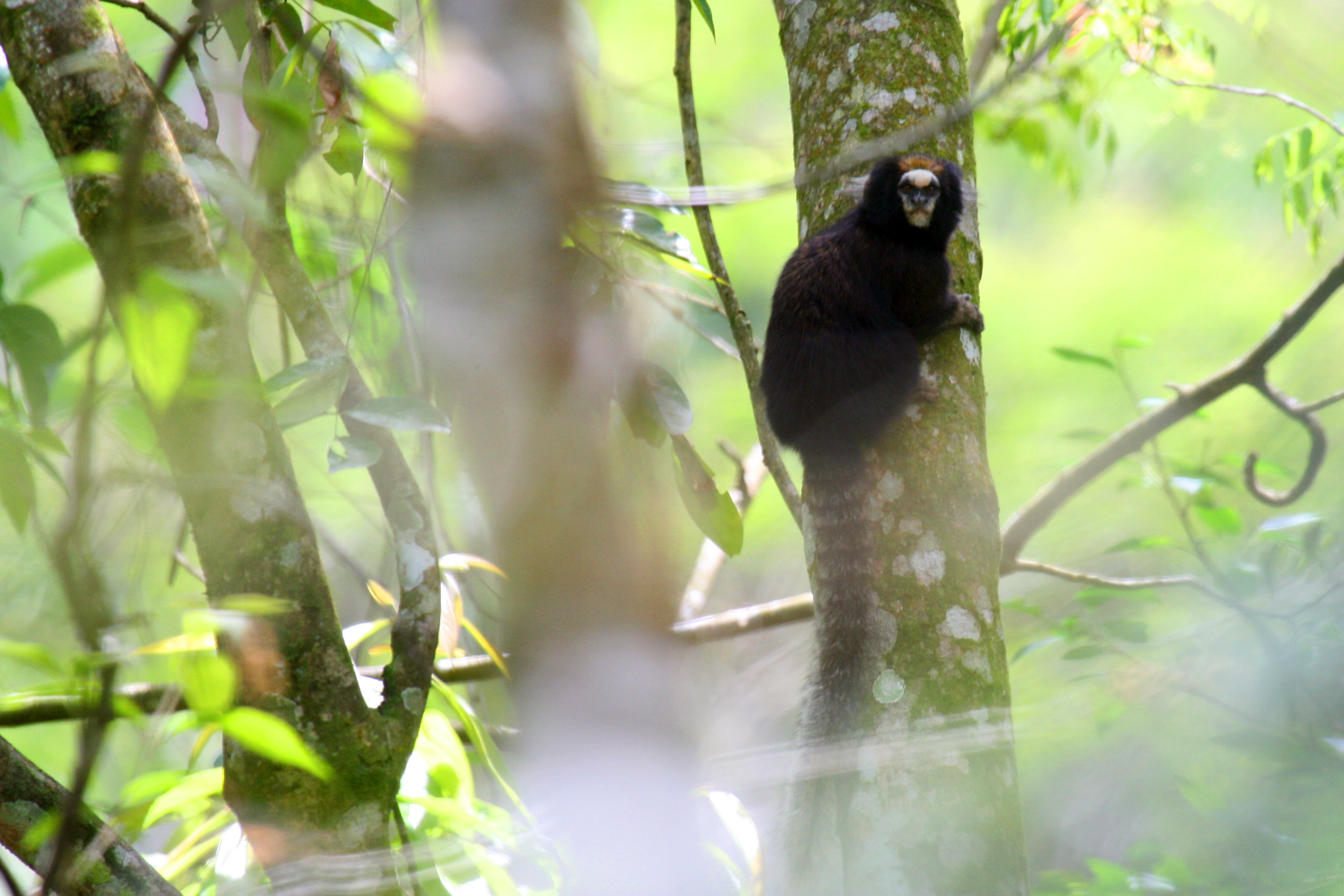 Buffy tufetd marmoset (Callithrix aurita)